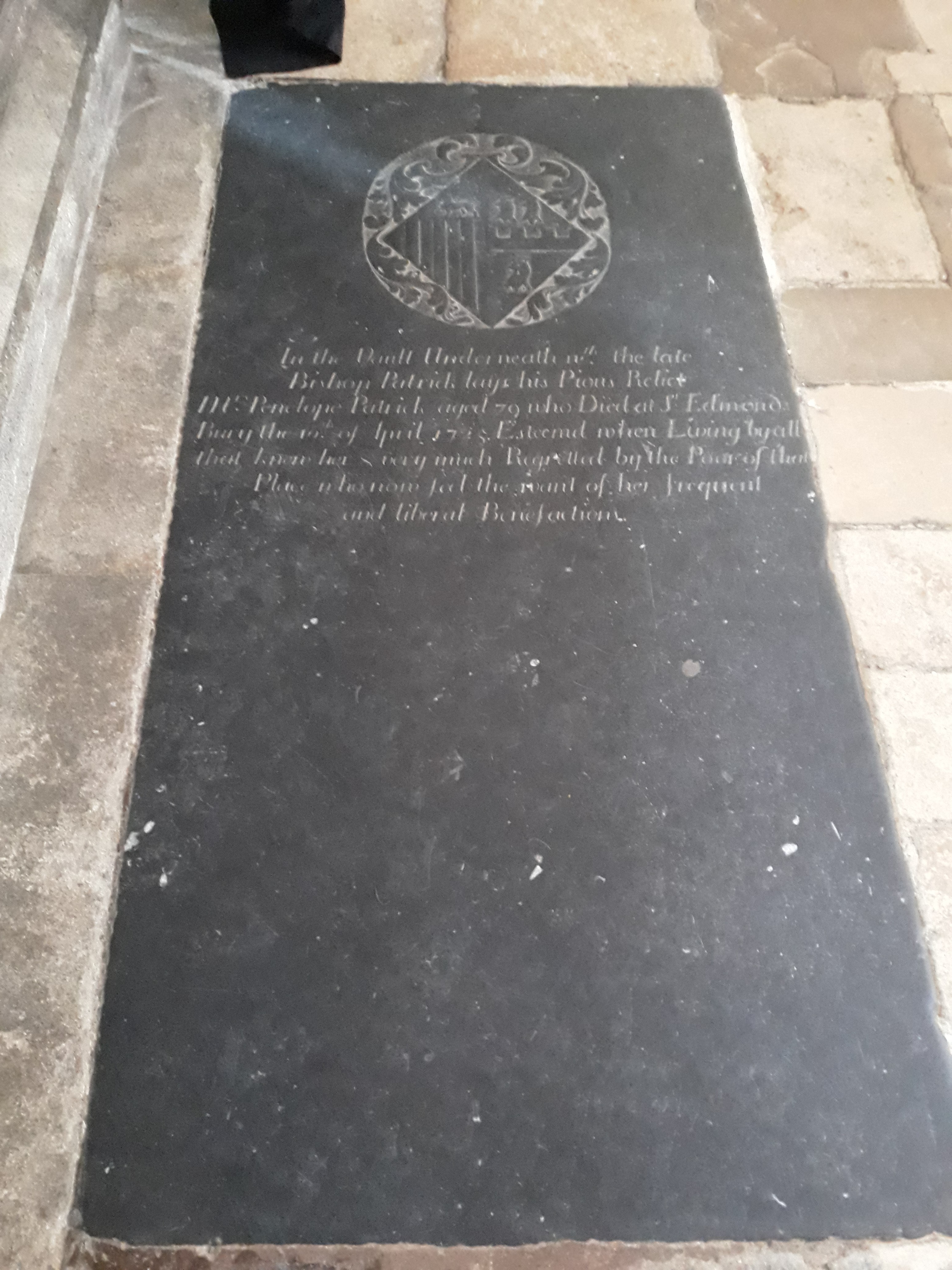 Ely Cathedral, Cambridgeshire, England. Simon Patrick (8 September 1626 – 31 May 1707), Bishop of Ely. He married Penelope Jephson, a daughter of Maj. Gen. William Jephson (1609-1658), a Member of Parliament for Stockbridge, by his wife Alicia Denham, a daughter of Sir John Denham of Borestall House, Buckinghamshire